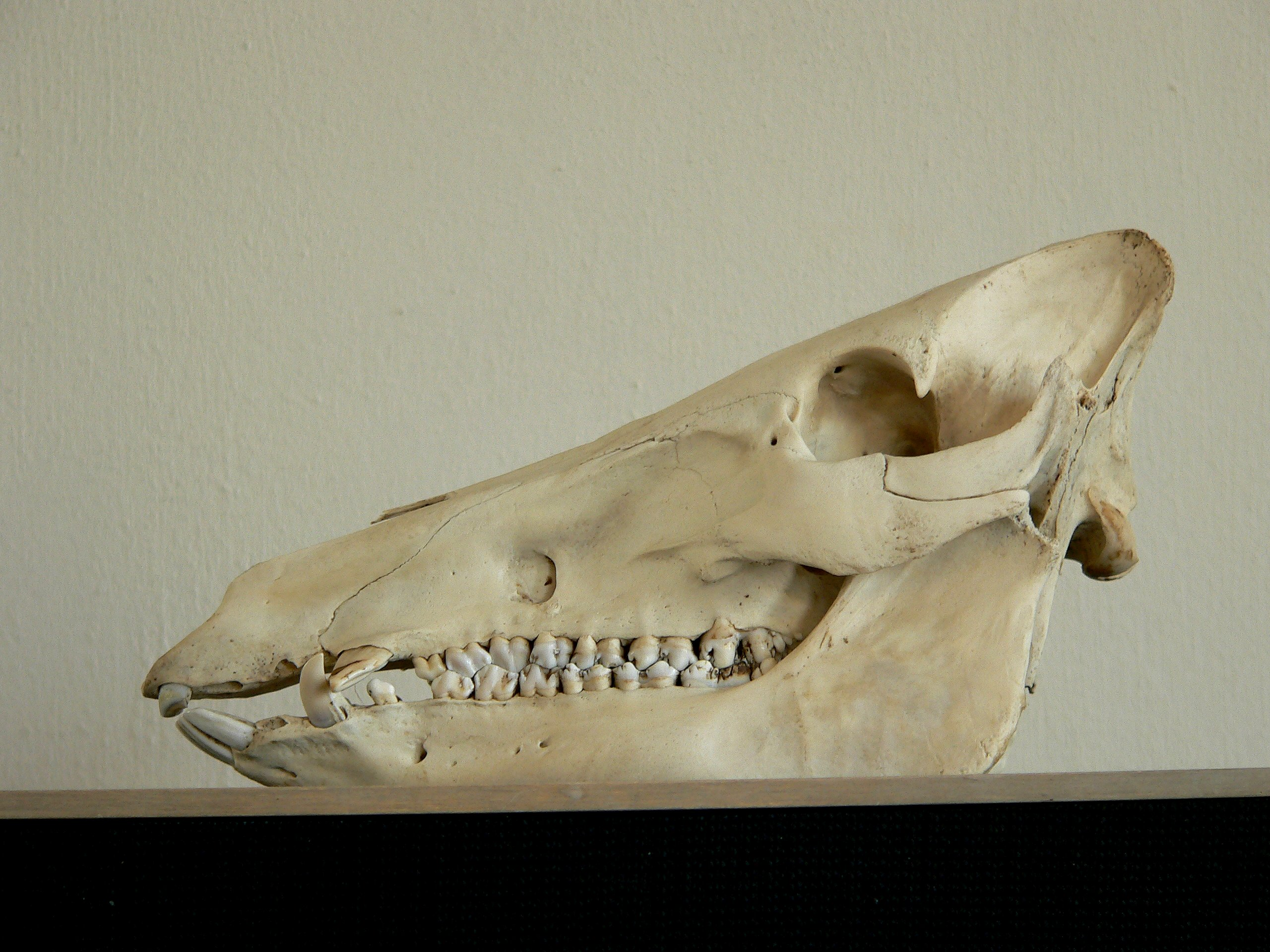 Wild boar skull, found at Herikhuizer Veld near Velp and Rheden, the Netherlands, few teeth in front are missing